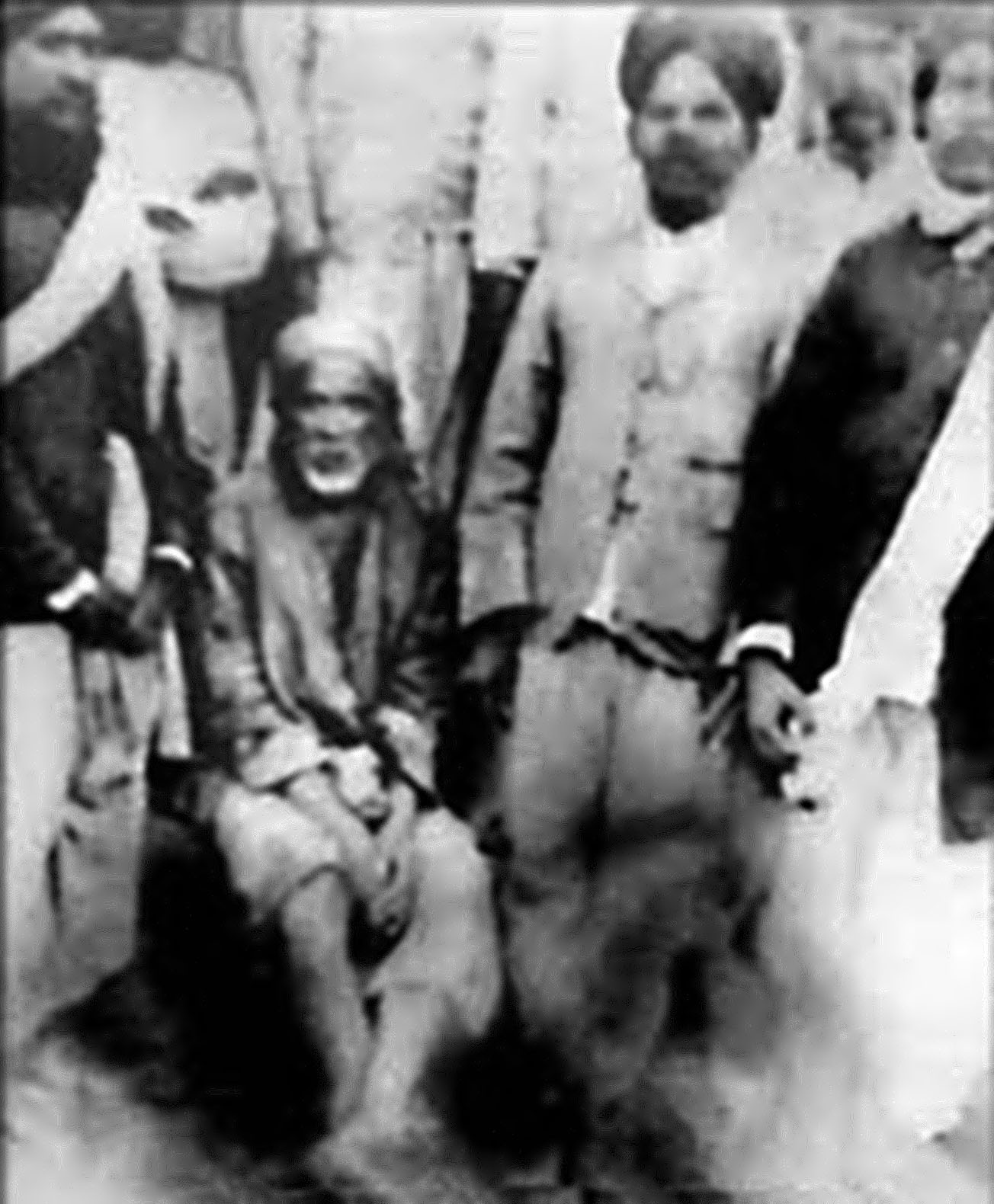 Sai Baba of Shirdi sitting among his devotees, around 1910-1915